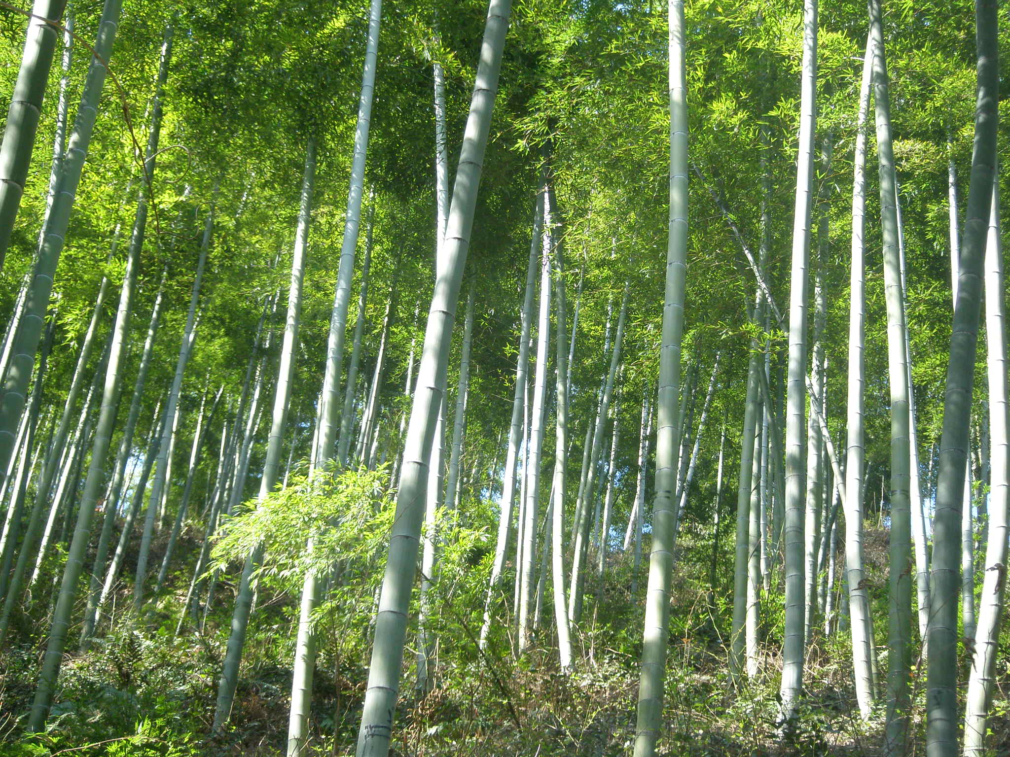 thick bamboo forest in Anji